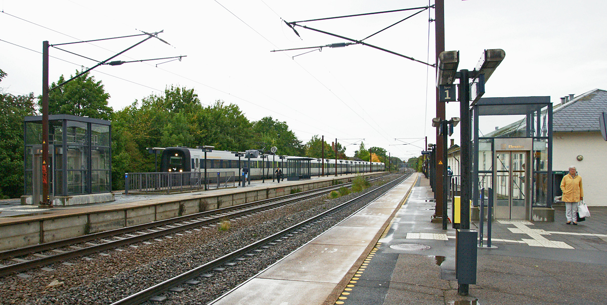 Railway Station in Borup, Køge Municipality, Denmark